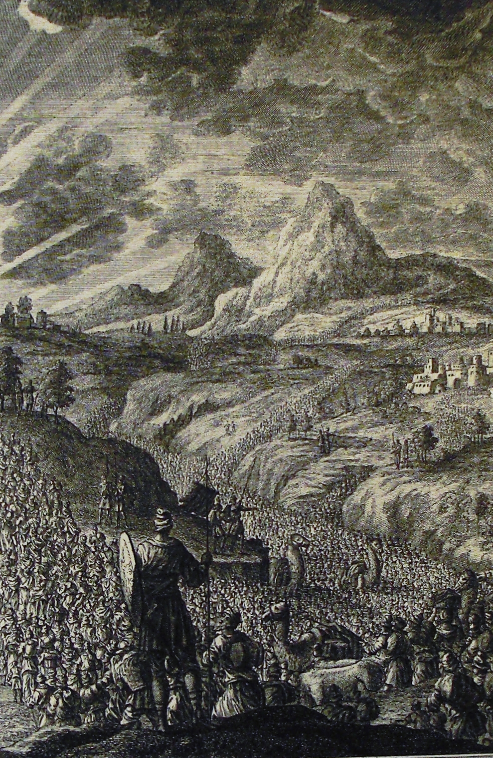 A print from the Phillip Medhurst Collection of Bible illustrations in the possession of Revd. Philip De Vere at St. George’s Court, Kidderminster, England.